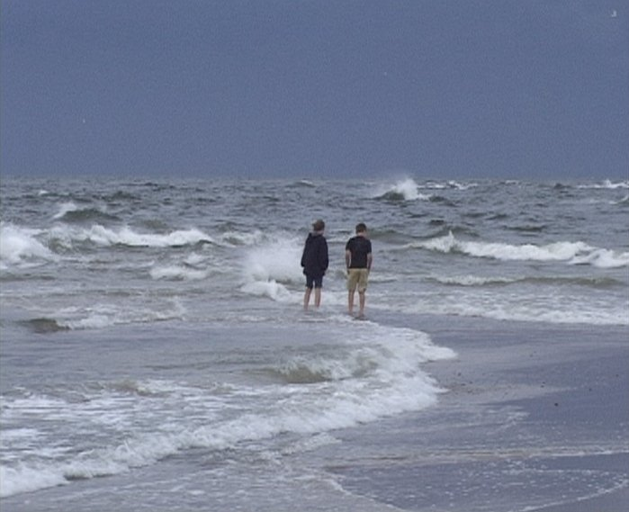 Grenen, 2001